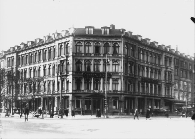 Central Hotel or Centralhotellet with Café Paraplyen, defunct and demolished hotel at Rådhuspladsen 16/Vesterbrogade 2A, Copenhagen (1874-1934)